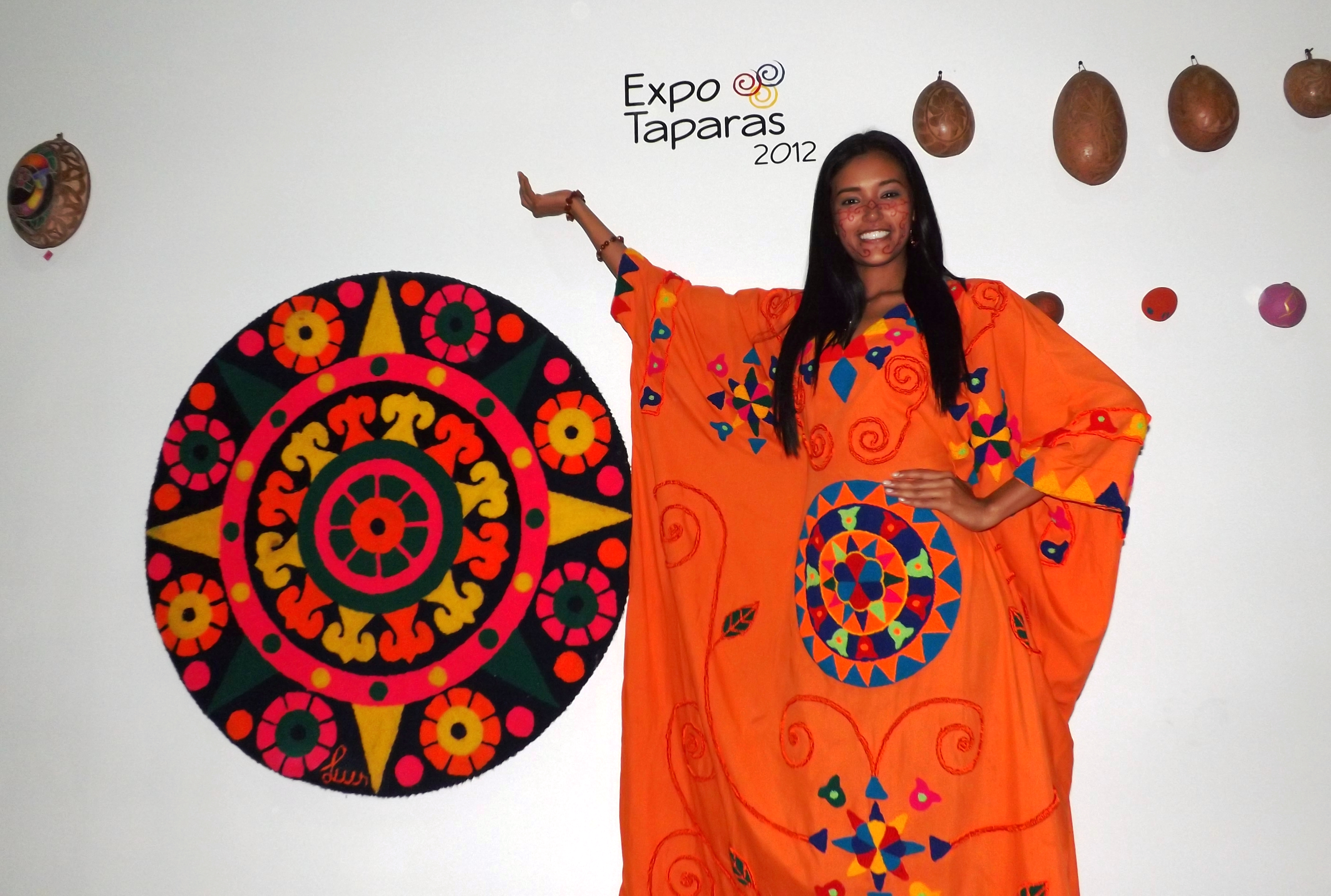 Rociree Silva Fernández, Miss Península Guajira 2012, wearing a wayuushein, a wayuu traditional dress (she's wayuu) at ExpoTaparas 2012, an event aimed to help wayuu communities